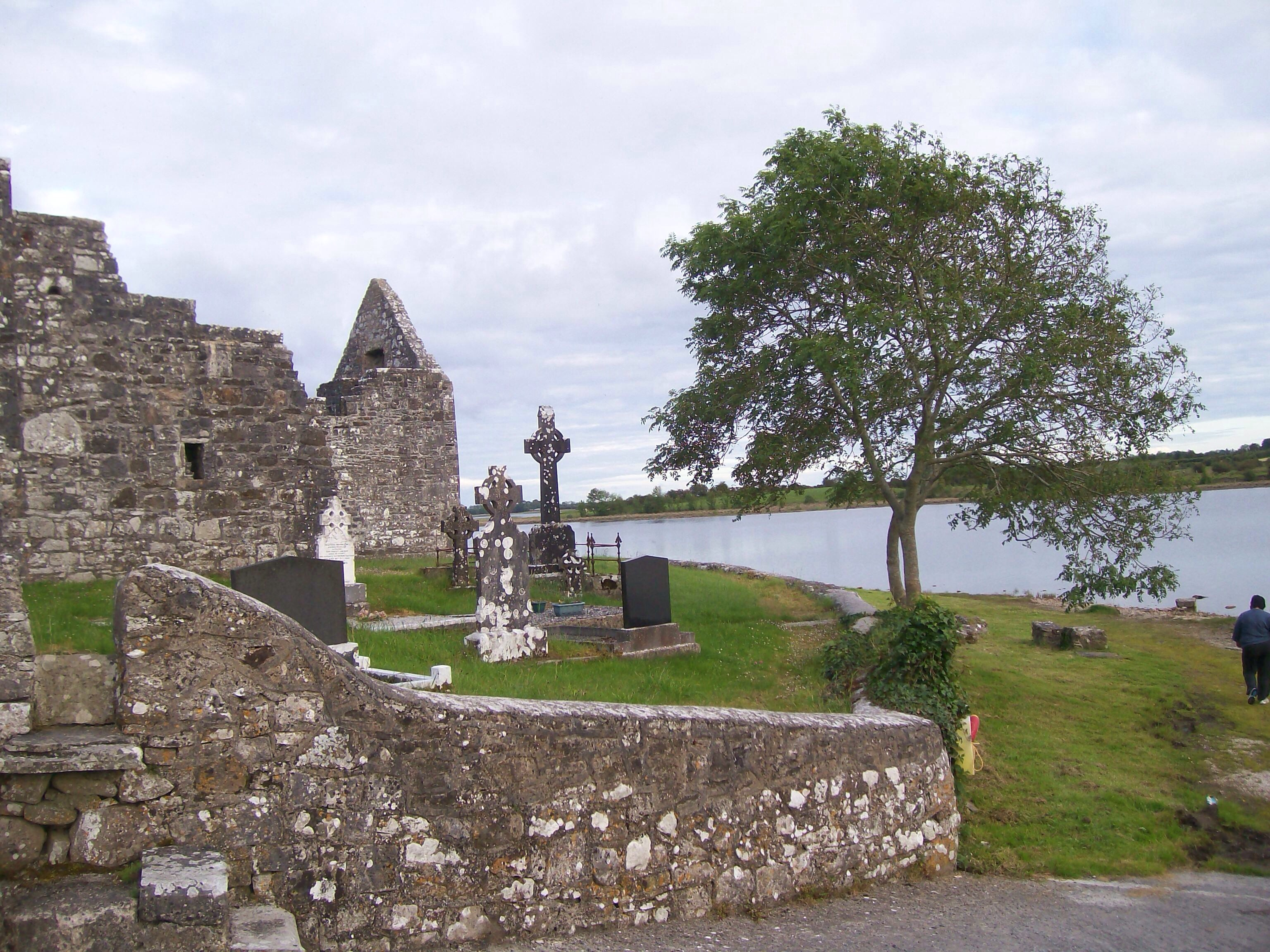 Urlaur Abbey on Lake Urlaur, County Mayo